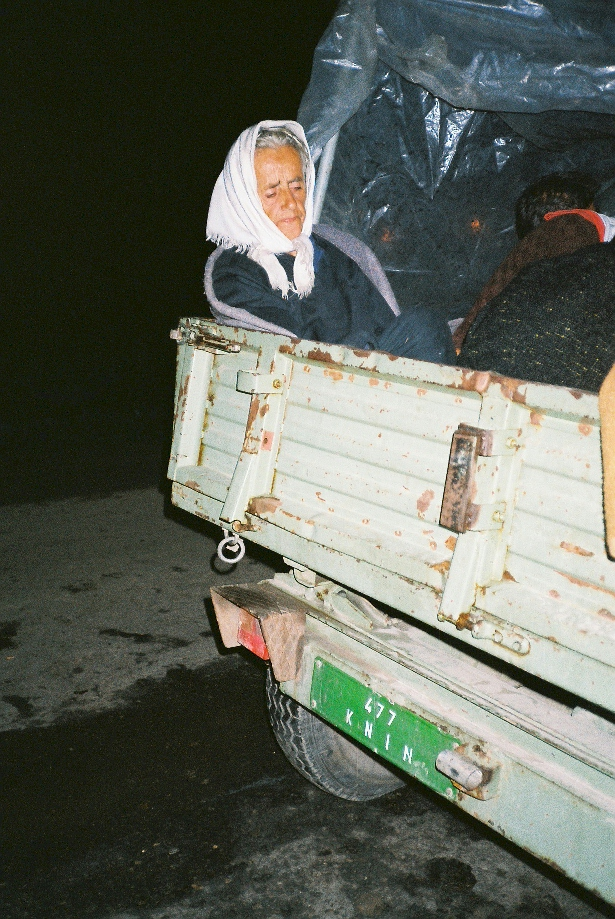 An old woman in a tractor trailer, fleeing from Operation Storm in Croatia. Photo taken at border crossing of FR Yugoslavia, in August 1995.